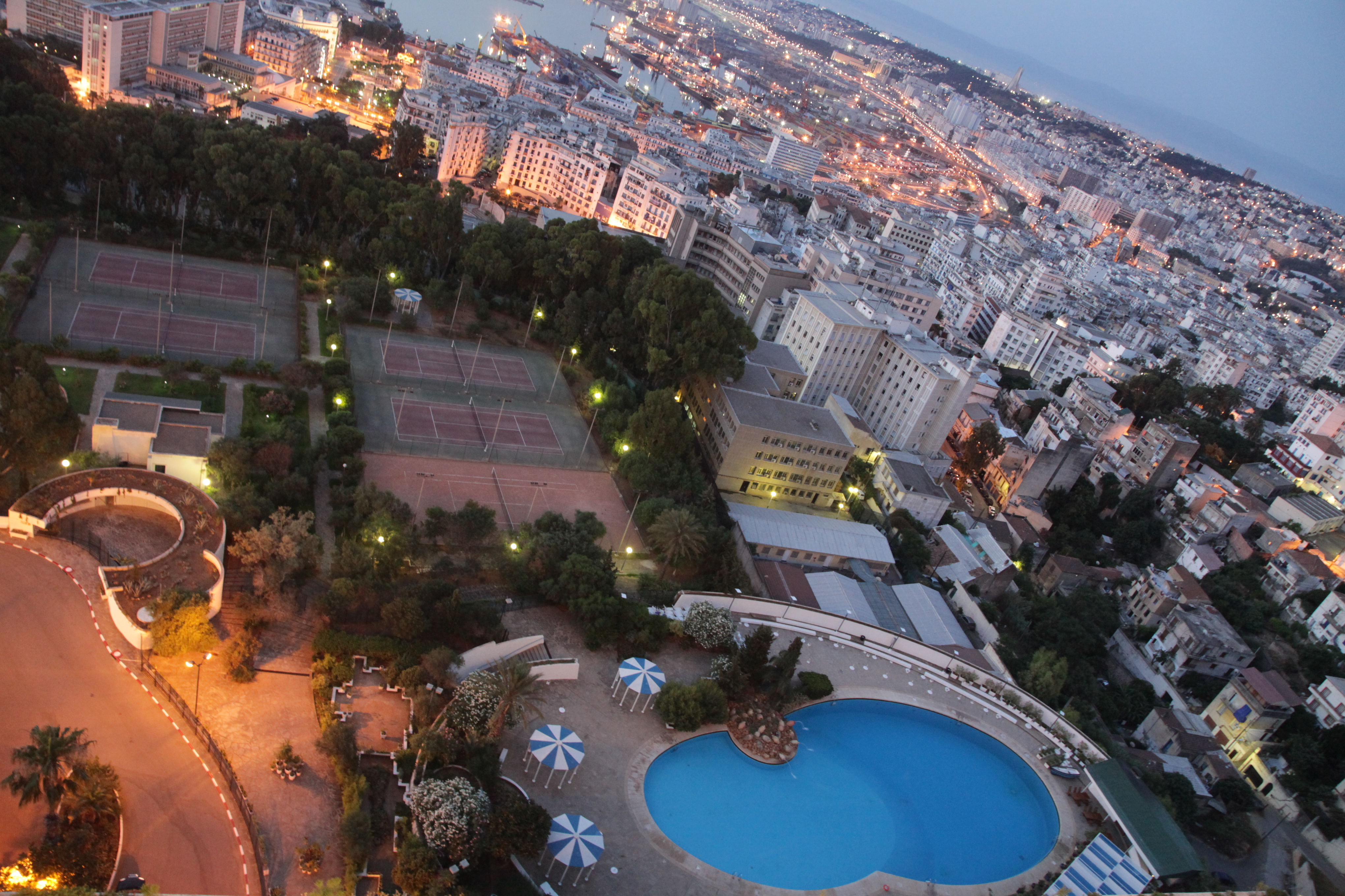 From Hotel Aurassi